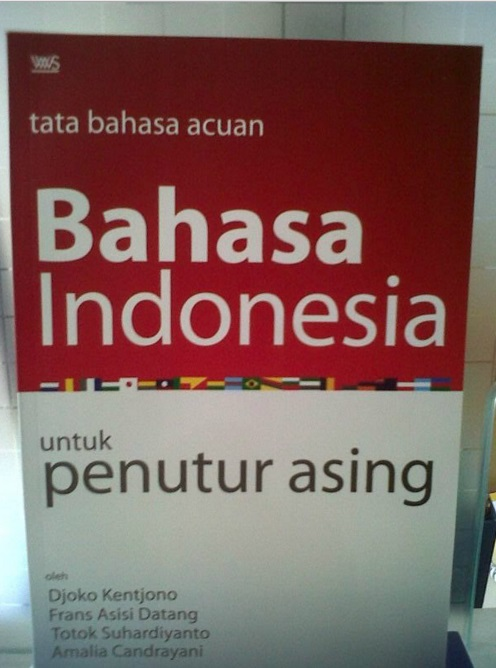 The BIPA (Bahasa Indonesia bagi Penutur Asing) book, which help foreigners to learn Indonesian language effectively.